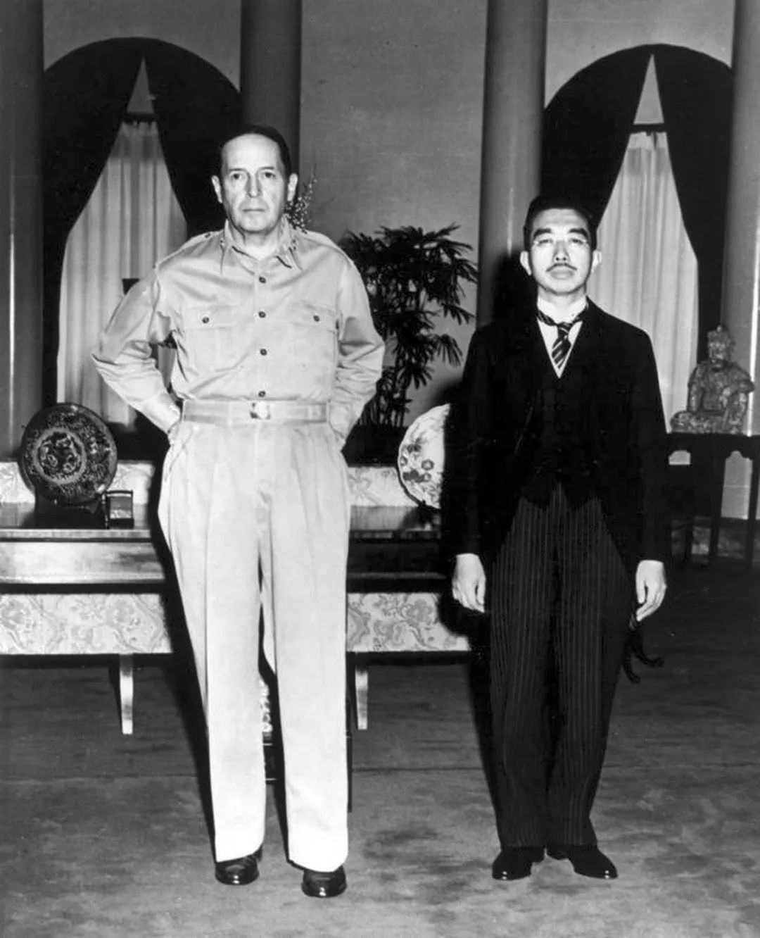 Emperor Hirohito and General MacArthur, at their first meeting, at the U.S. Embassy, Tokyo, 27 September, 1945